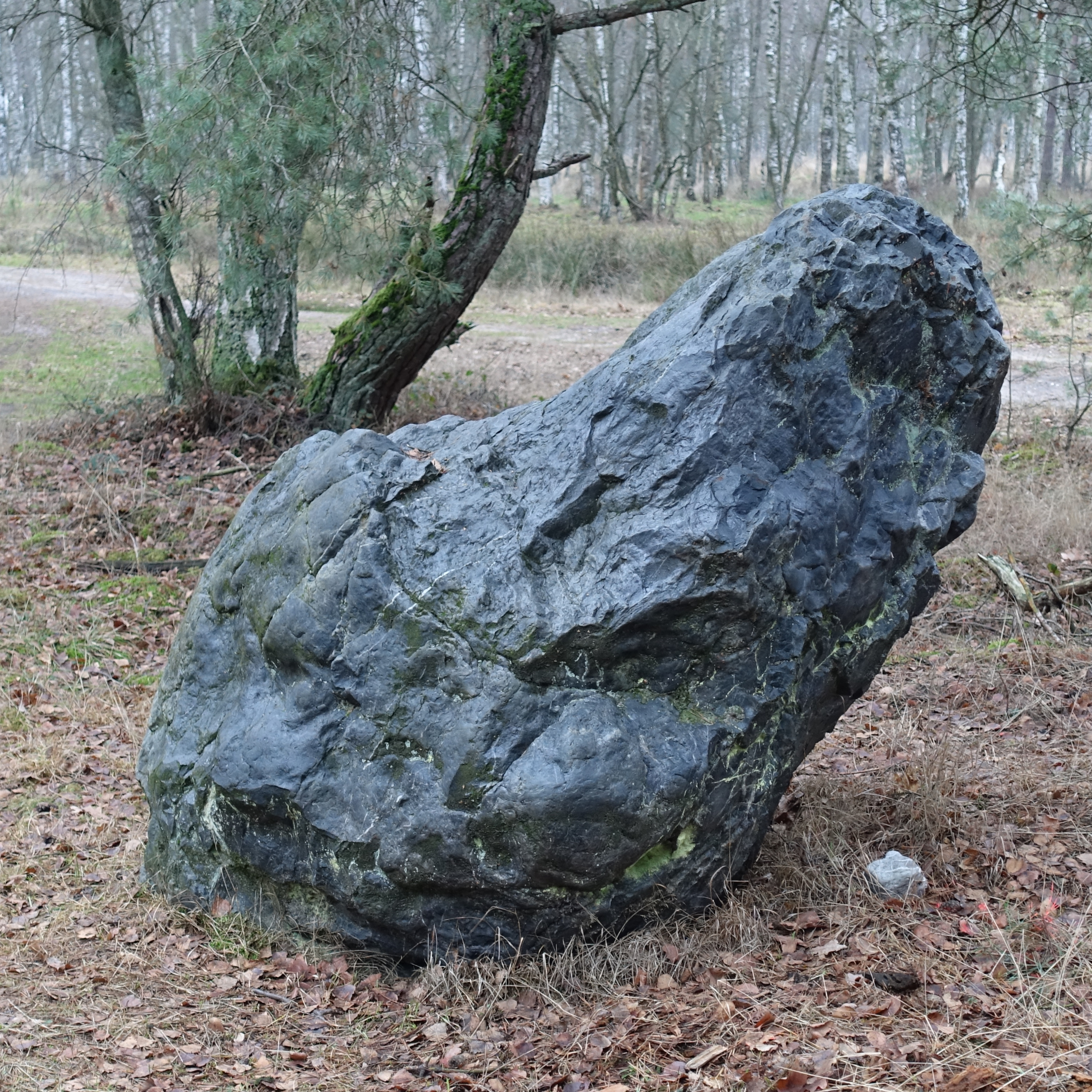 Grauwe Steen is an erratic that was already mentioned in the 14th century as boundary stone between the villages Zolder, Heusden, Koersel, Houthalen and Helchteren (Belgium).